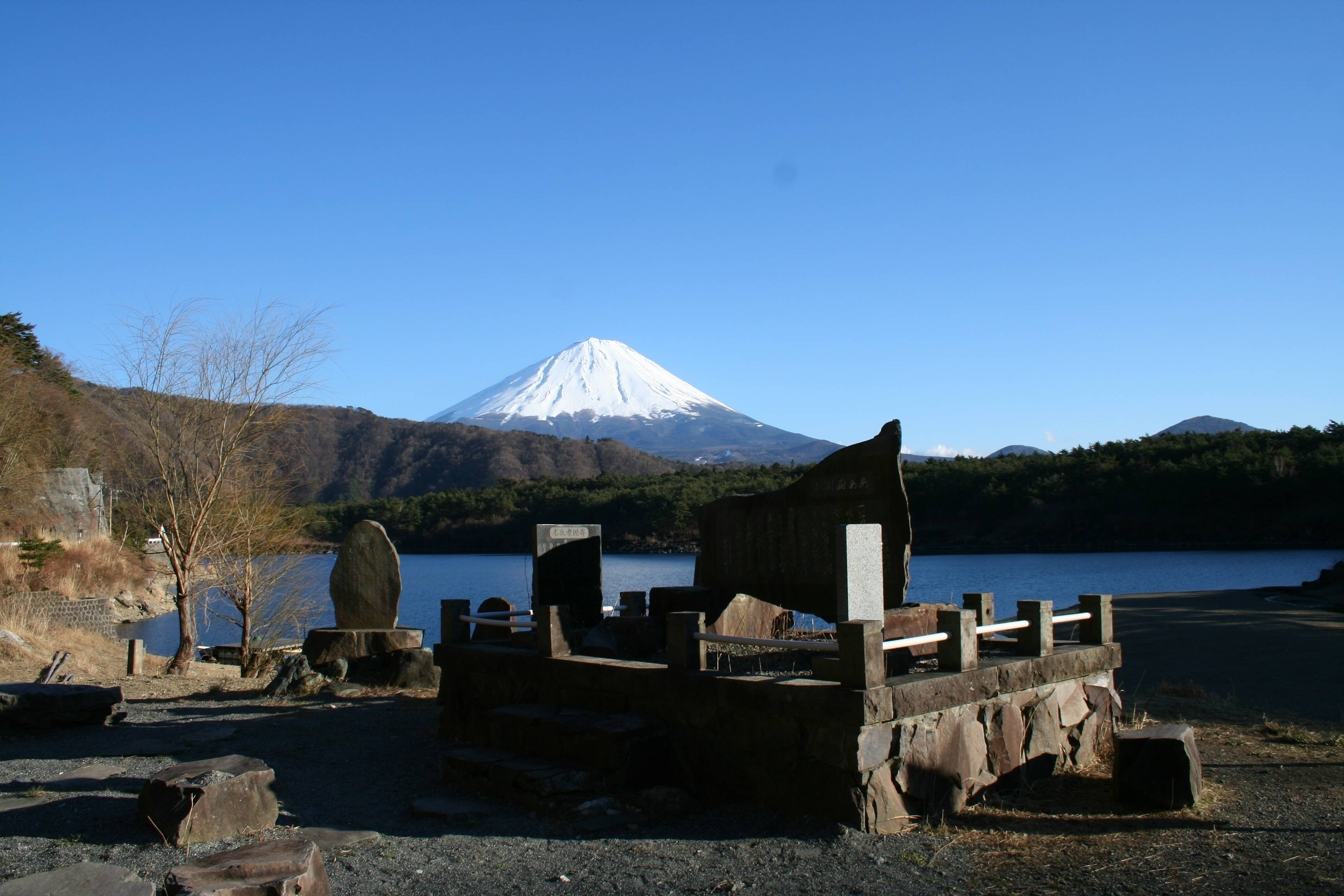 Mount Fuji from North-West of Lake Saiko on a clear day in mid October